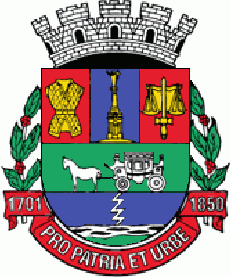 Coat of arms of Juiz de Fora, Minas Gerais, Brazil.